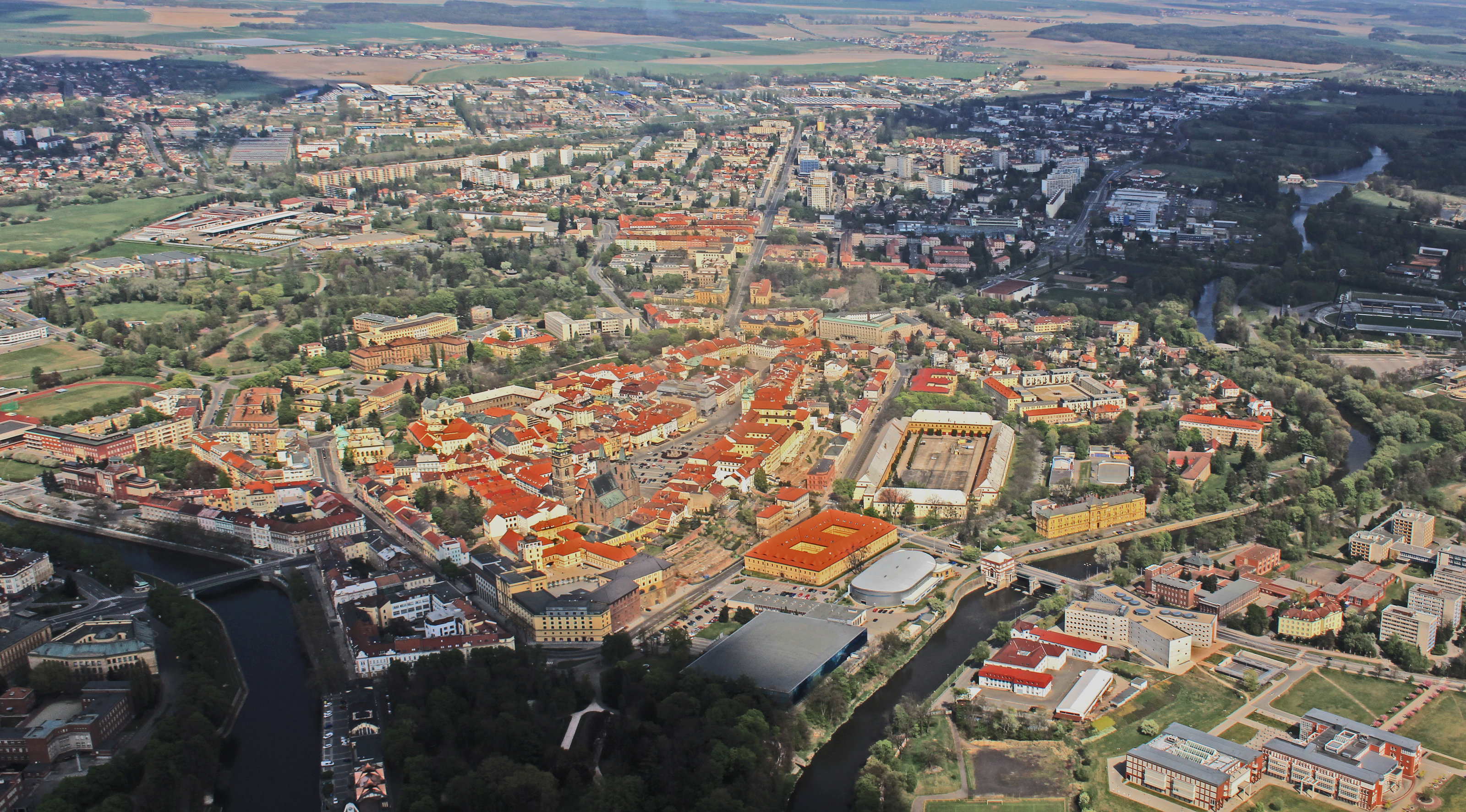 Town Hradec Králové from air, eastern Bohemia, Czech Republic